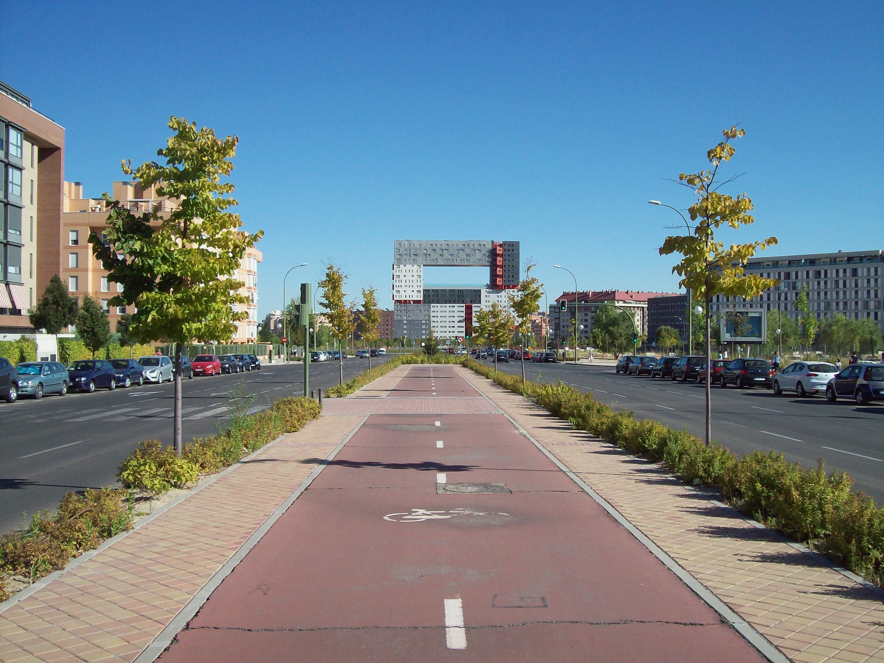 View of Avenida de Francisco Pi i Margall (an avenue) in Hortaleza district in Madrid (Spain). Background: Mirador Building.